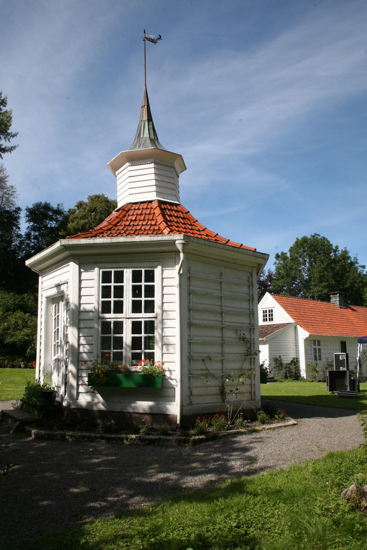 The pavilion at Alvøen Manor, Bergen, Norway.